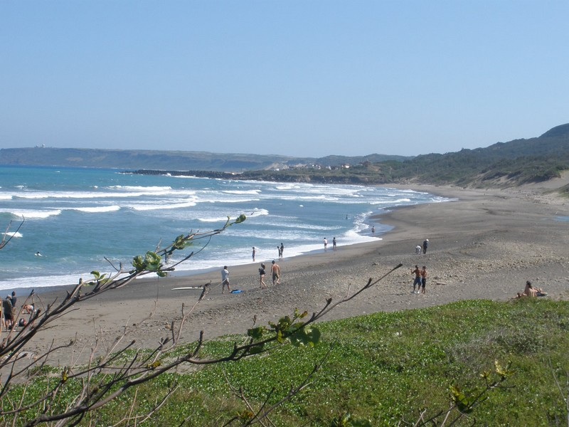 Jialeshui beach, south of Taiwan. The surfer beach